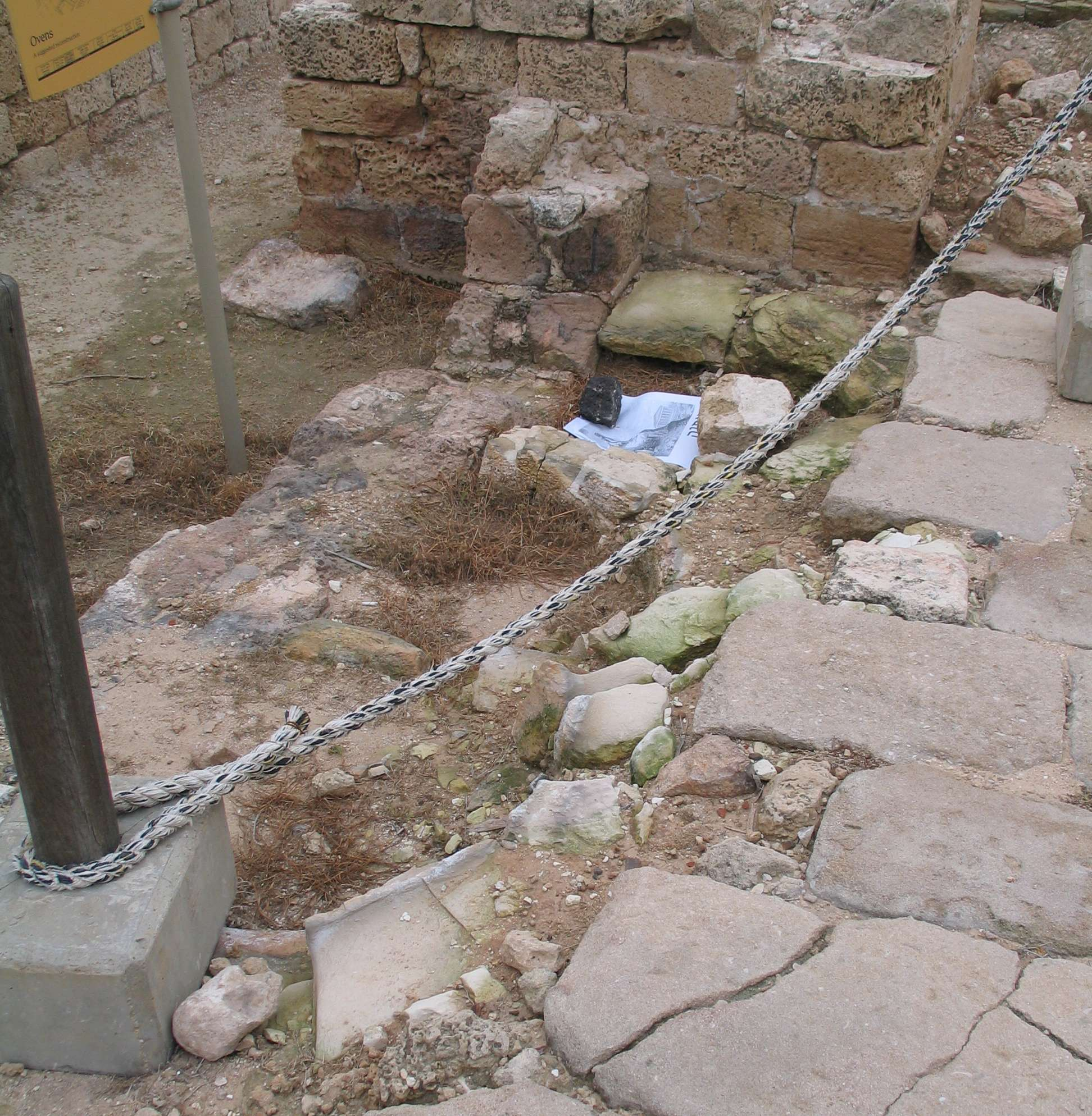 Arsuf fortress - kitchen, ovens. Apollonia National Park, Israel.